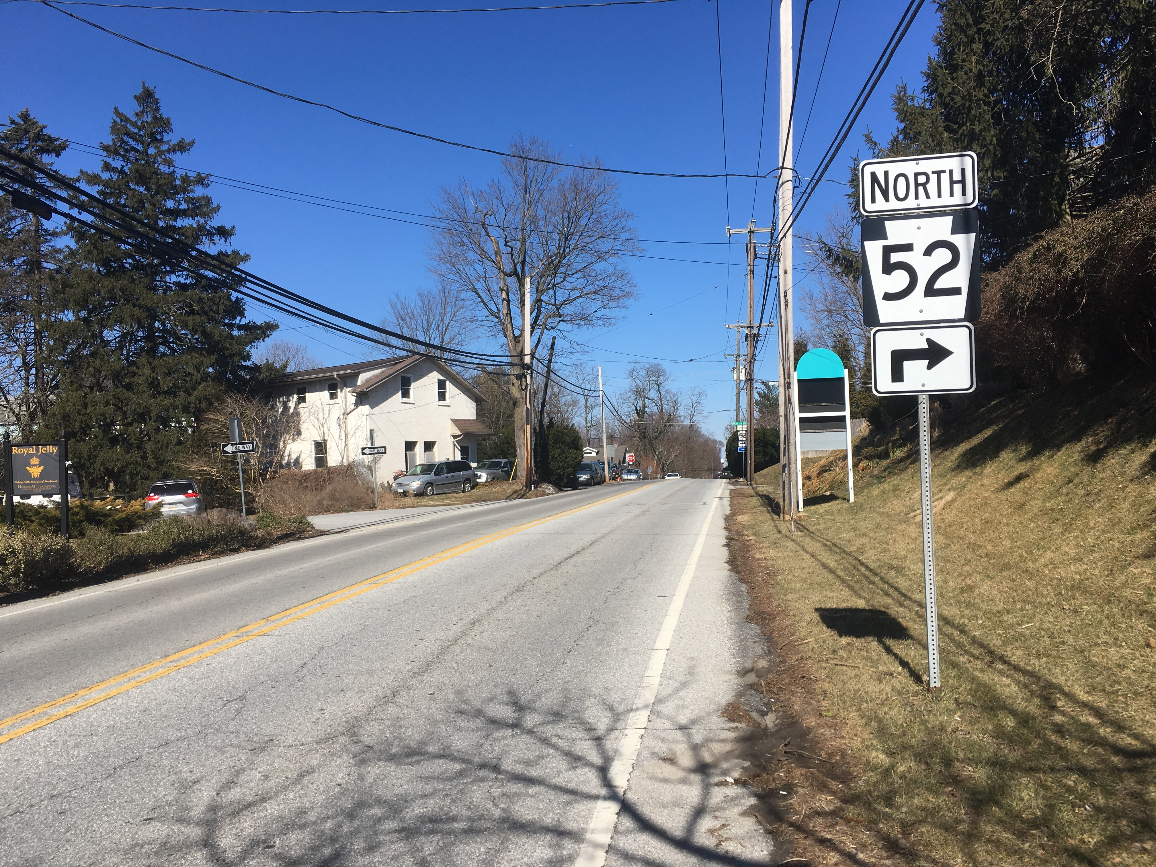 Northbound Pennsylvania Route 52 (Bradford Avenue) approaching the intersection with Price Street in West Chester, Pennsylvania, where the route turns east onto Price Street